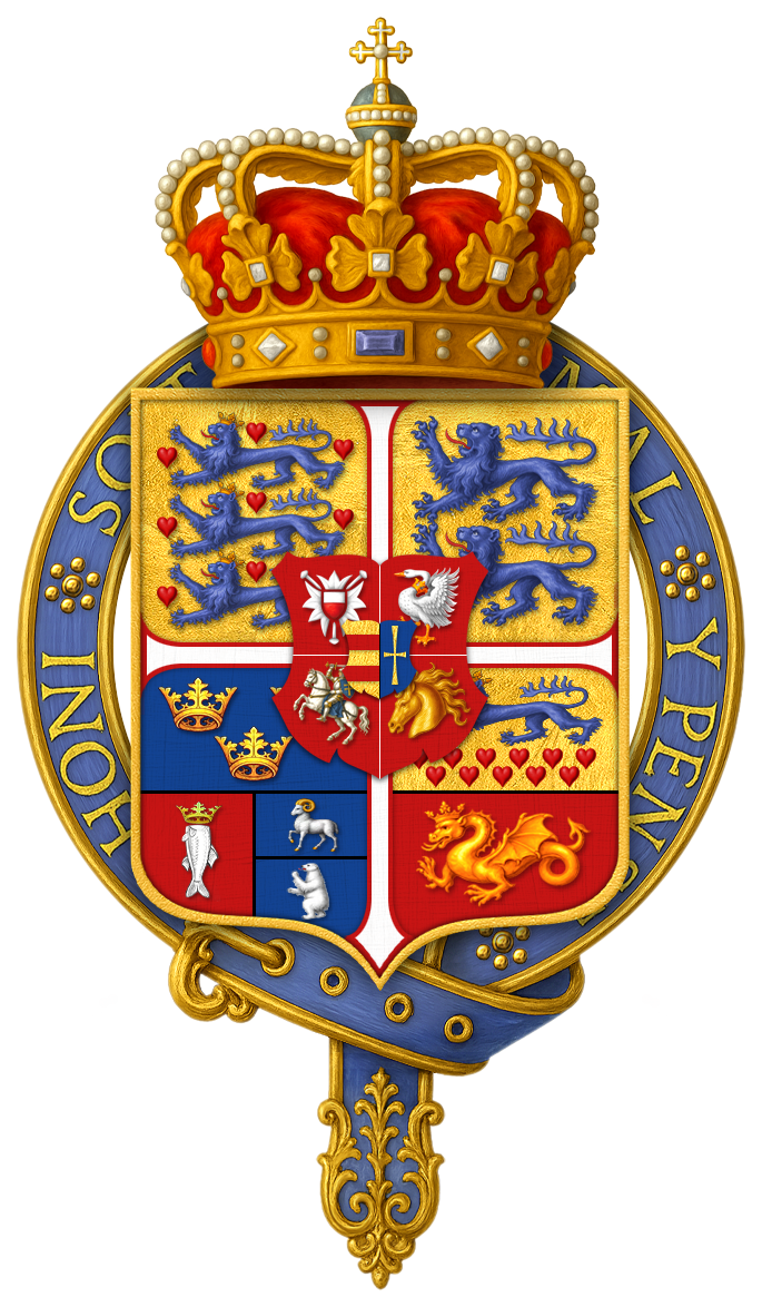 Garter-encircled shield of arms of Christian X, King of Denmark, as displayed on his Order of the Garter stall plate in St. George's Chapel.